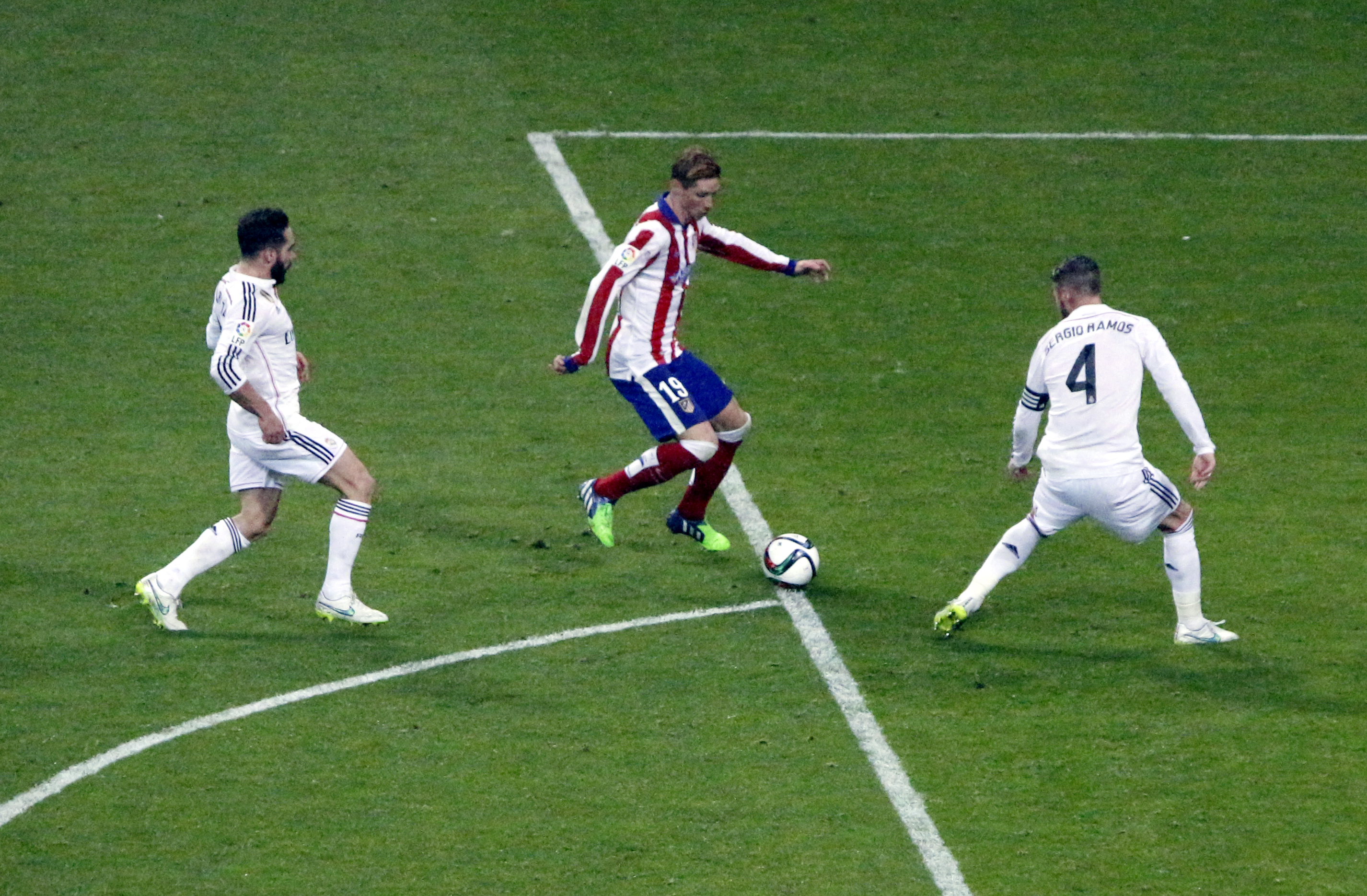 Fernando Torres running at the goal.